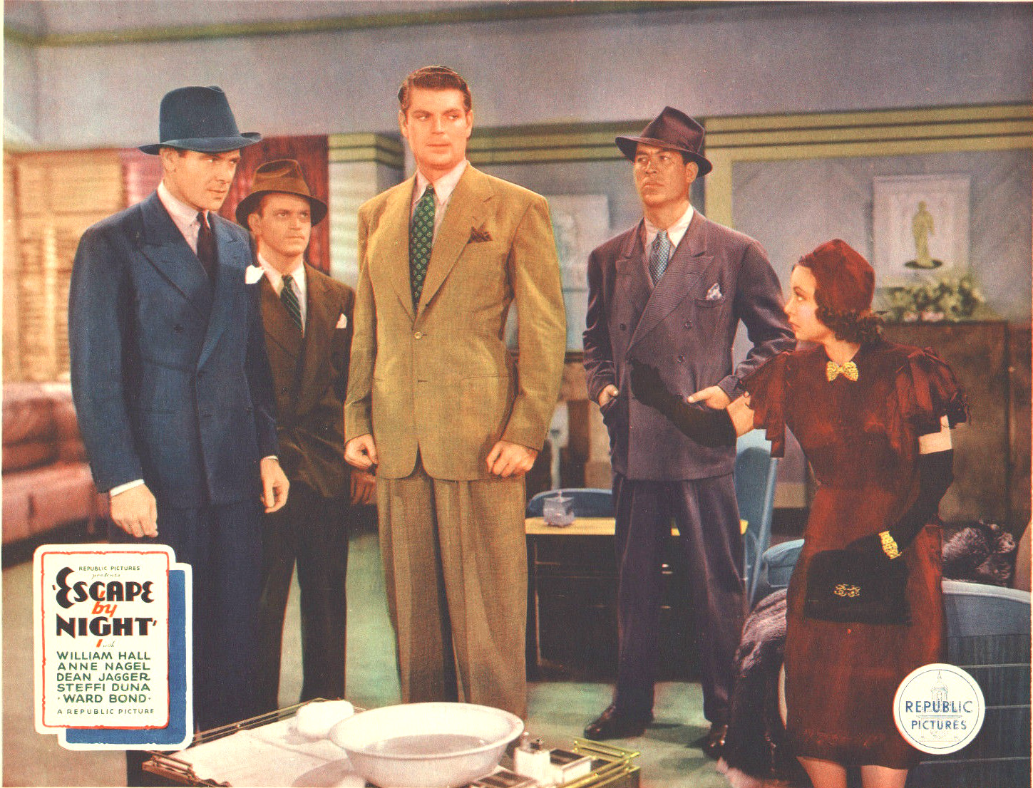 Lobby card for the American crime film Escape By Night (1937) with William Hall, Steffi Duna, and Dean Jagger.